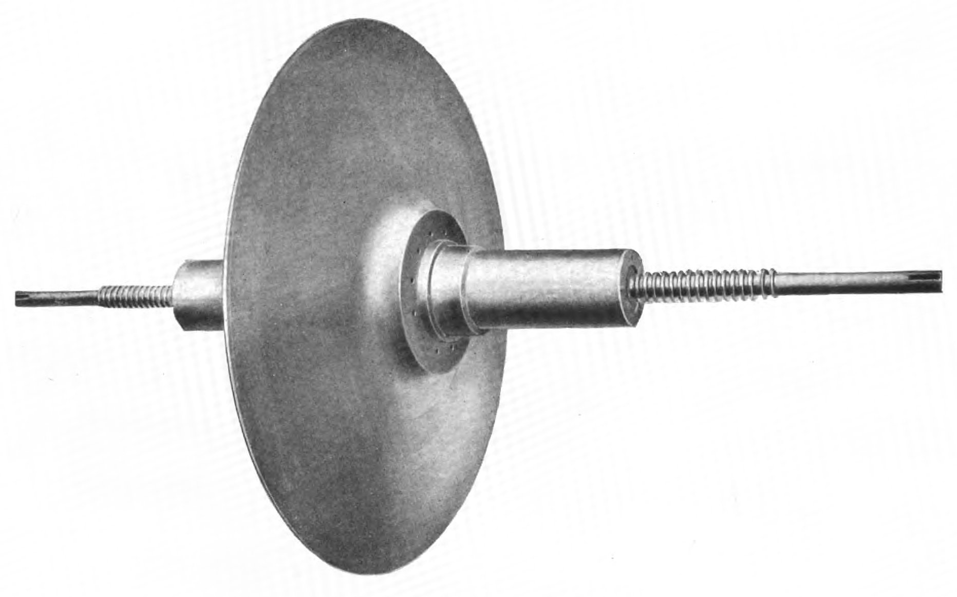 The rotor of a General Electric 200 kW Alexanderson alternator, a type of radio transmitter used from 1906 to 1930. The rotor consists of a disk made of high tensile magnetic steel with narrow slots cut in its periphery, creating a series of blades which form the magnetic "poles" of the machine. The slots are filled with bronze to give the rotor a smooth surface. The rotor has no conductive windings and the machine operates by induction. A stator with an equal number of poles around the periphery of the rotor creates a magnetic field axially through the side of the rotor. When the stator and rotor poles line up the magnetic flux through the pole increases. When the rotor poles are between two stator poles the magnetic flux decreases. This induces a radio frequency alternating current in the stator wondings. The rotor weighs 5500 lb. The air gap between the rotor and stator on each side is only 1 mm, maintained by a complicated thrust bearing system. It turned at 2170 RPM and the alternator transmitted at 22. 1 kHz. It was installed in September 1918 at RCA's New Brunswick, N.J. station Alterations to image: Removed aliasing artifacts (background grid of stripes) introduced by scanning halftone photo, using the Gimp FFT filter.